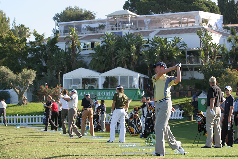 Aloha Golf Club, Valle Romana Open, Marbella, Spain